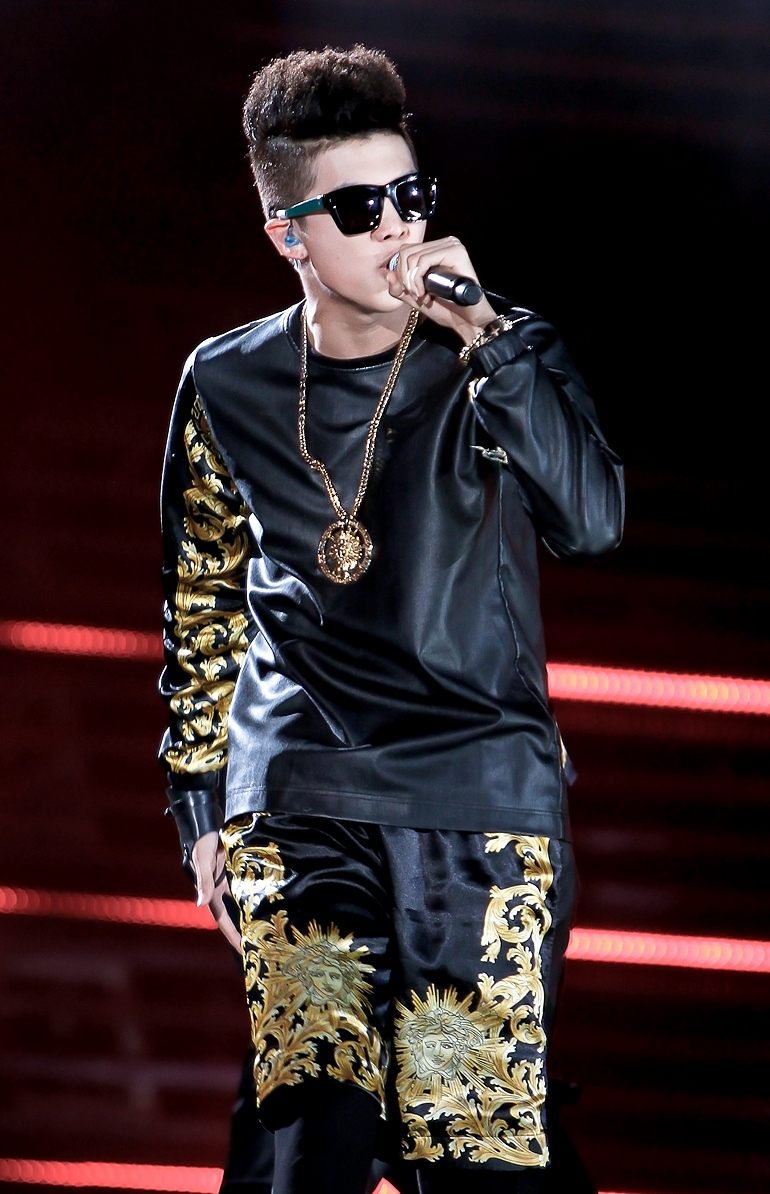 Rap Monster at Incheon Korean Music Wave September 1, 2013.